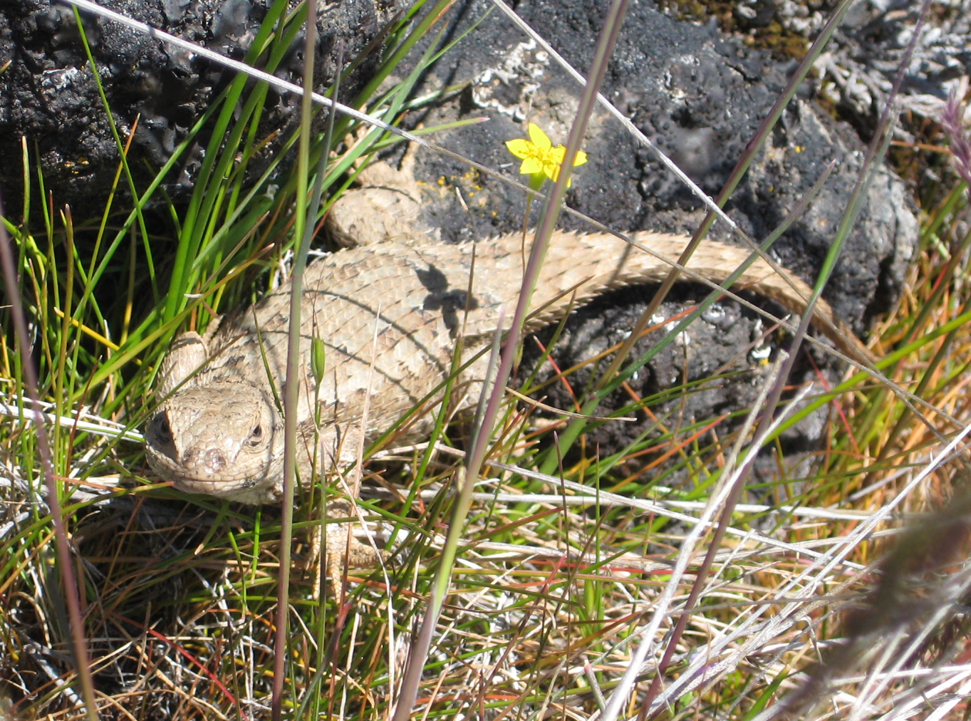 I took this picture myself on Lower Table Rock, then edited it using Fireworks MX 2004. I believe it is a Western Fence Lizard and quite a good sized one. Little_Mountain_5 (talk · contribs) identified the flower as a western buttercup.